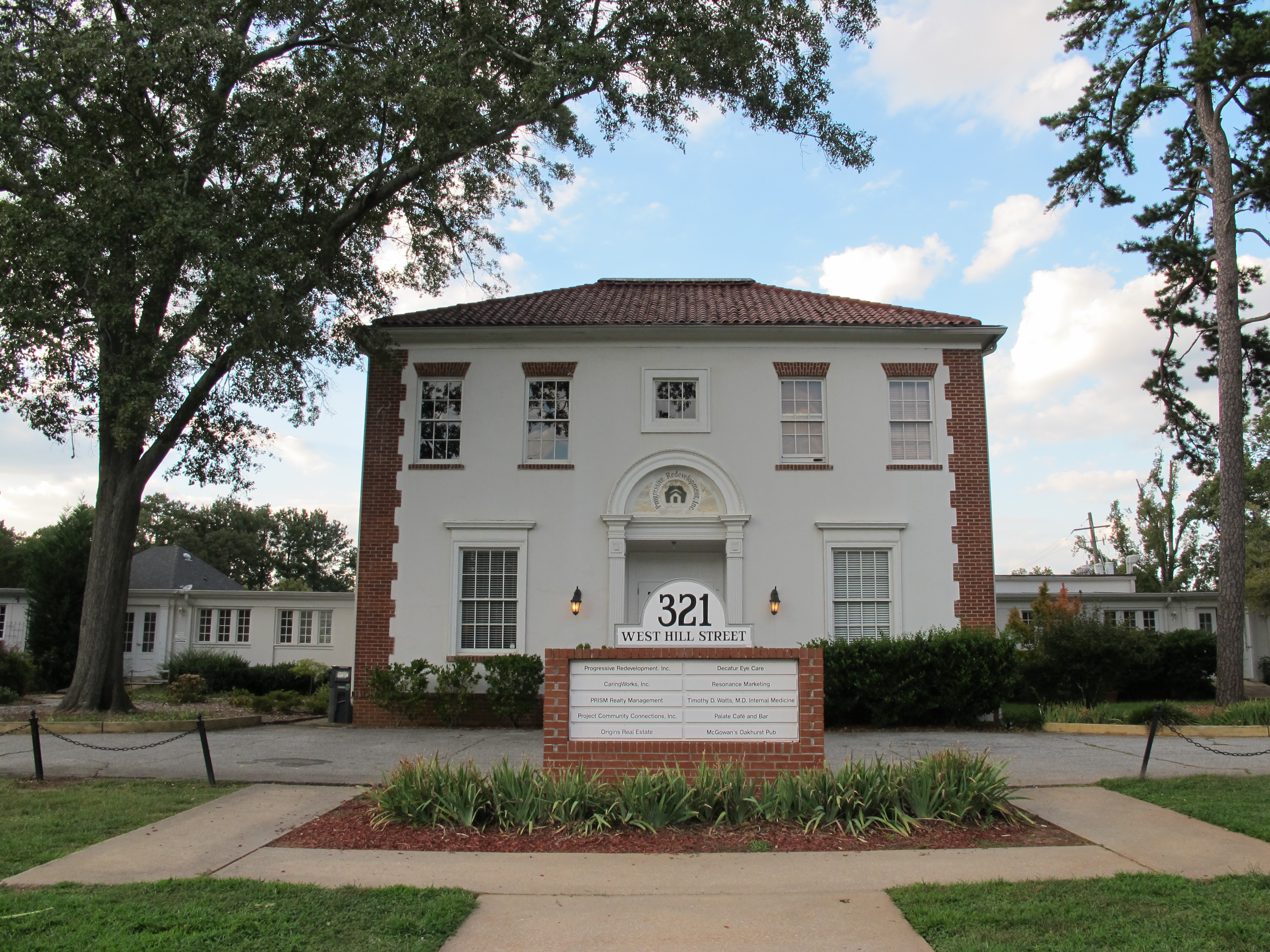 321 West Hill Street, formerly Scottish Rite Hospital for Crippled Children